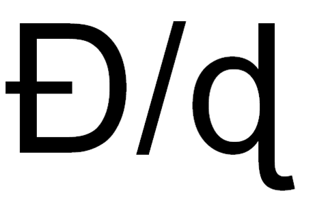 African D